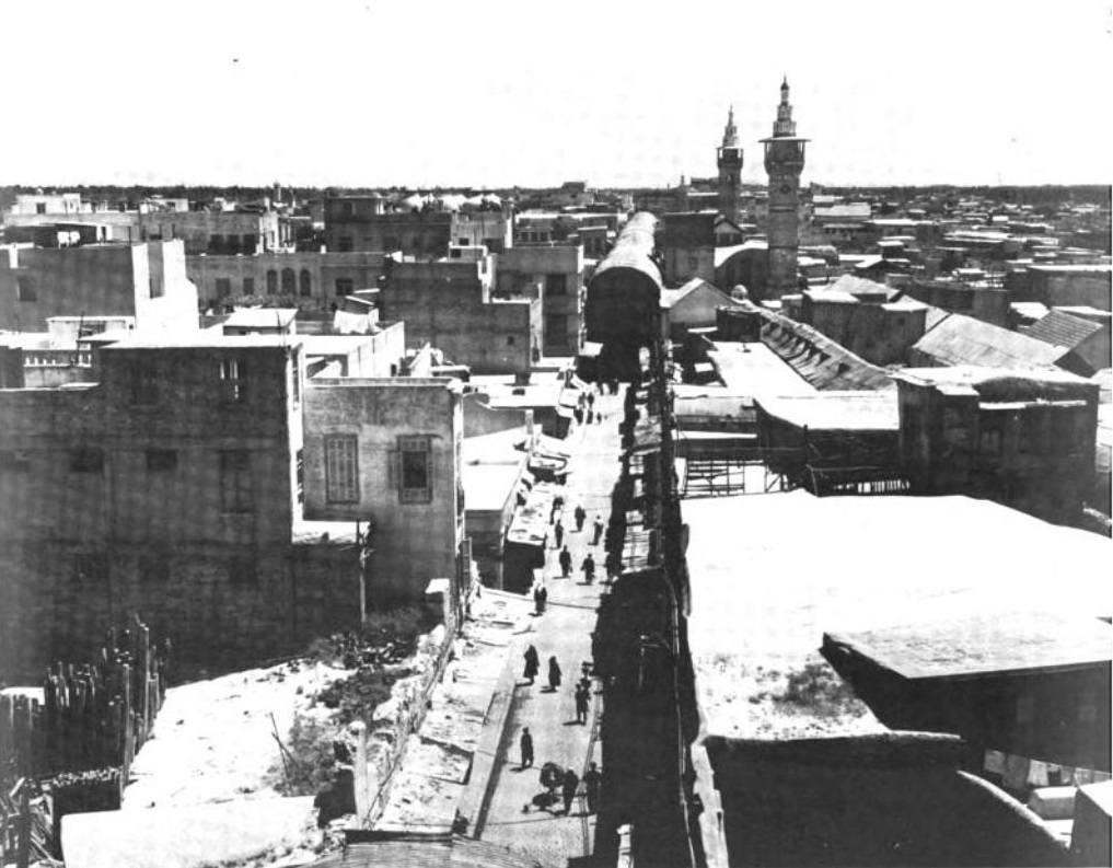 Straight Street of Damascus and Souq Madhat Pasha with its iron roof, before 1875